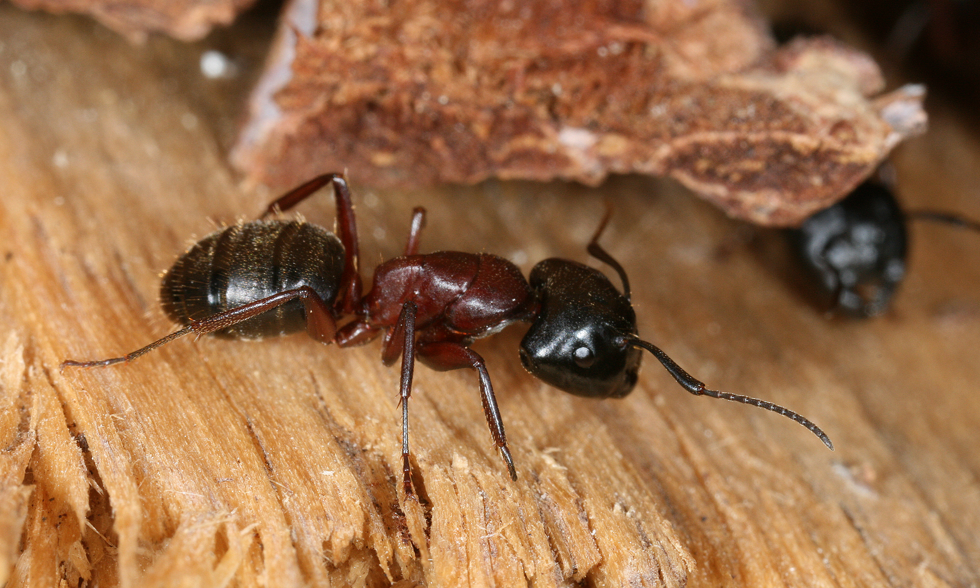 Description: This image shows a Carpenter ant (Camponotus ligniperda).Carpenter ants are large ants (¼ in–1 in) indigenous to large parts of the world. They prefer dead, damp wood in which to build nests. Sometimes carpenter ants will hollow out sections of trees.